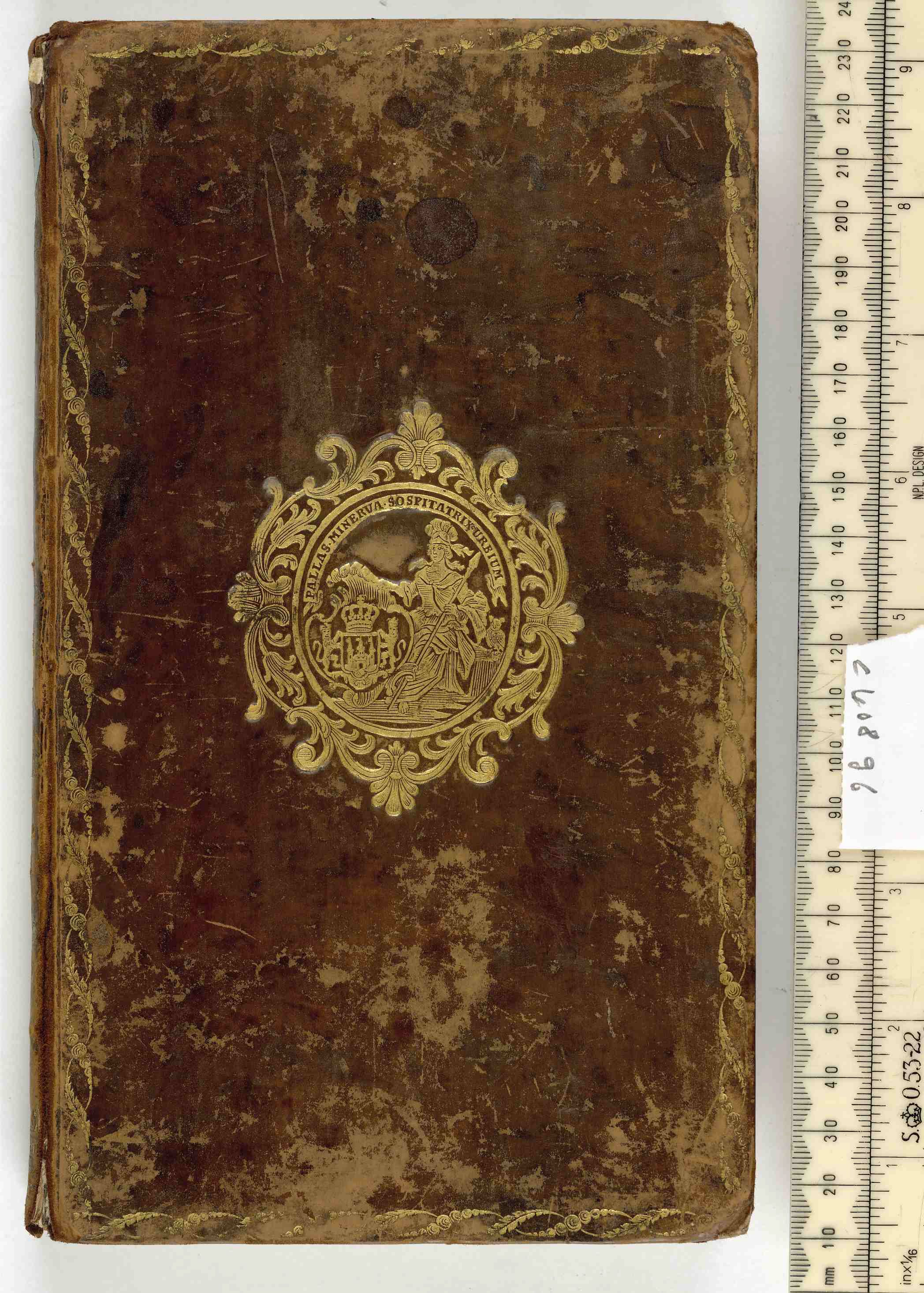 Style: Armorial; Caption: Upper cover; Colour: Brown; Edge: Unspecified